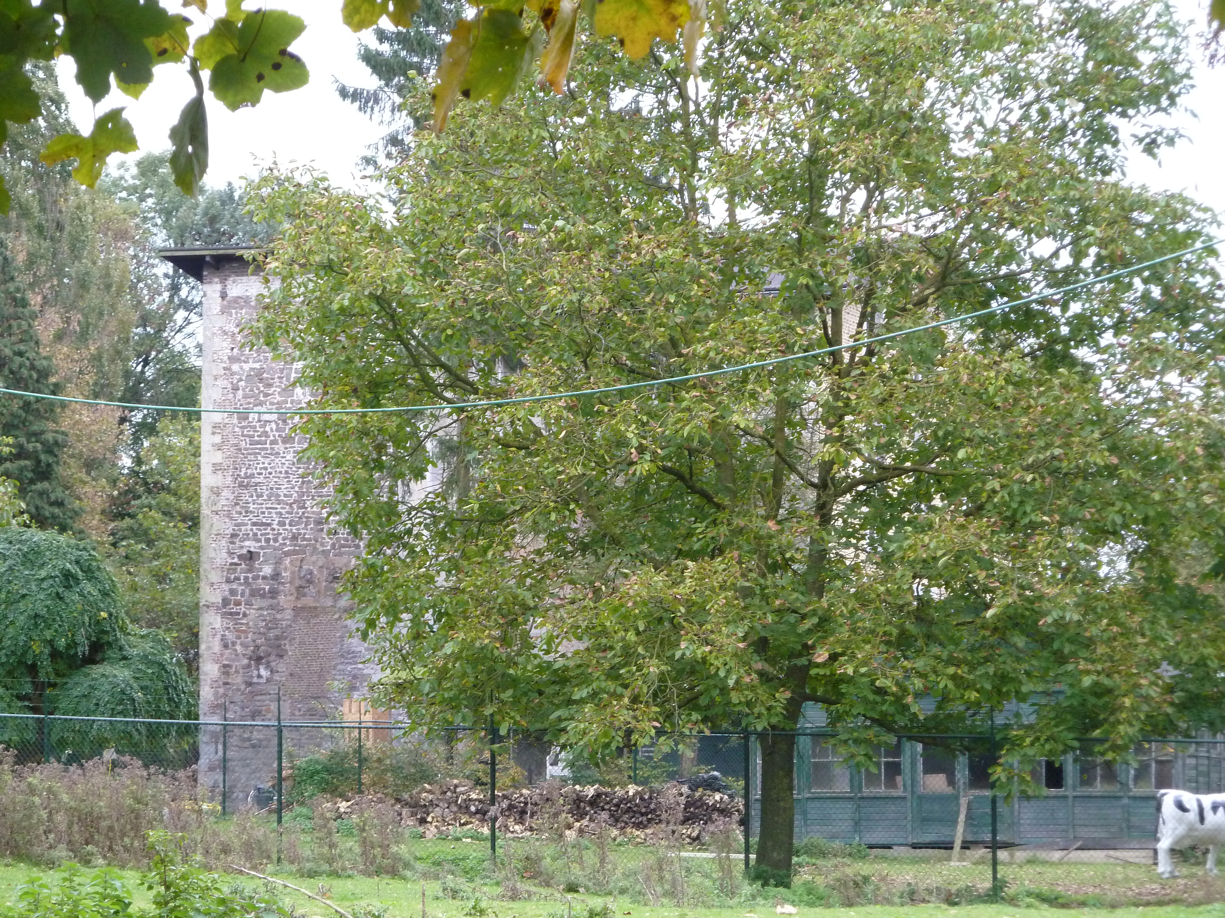 Castle Oost, Oost-Maarland, Limburg, the Netherlands